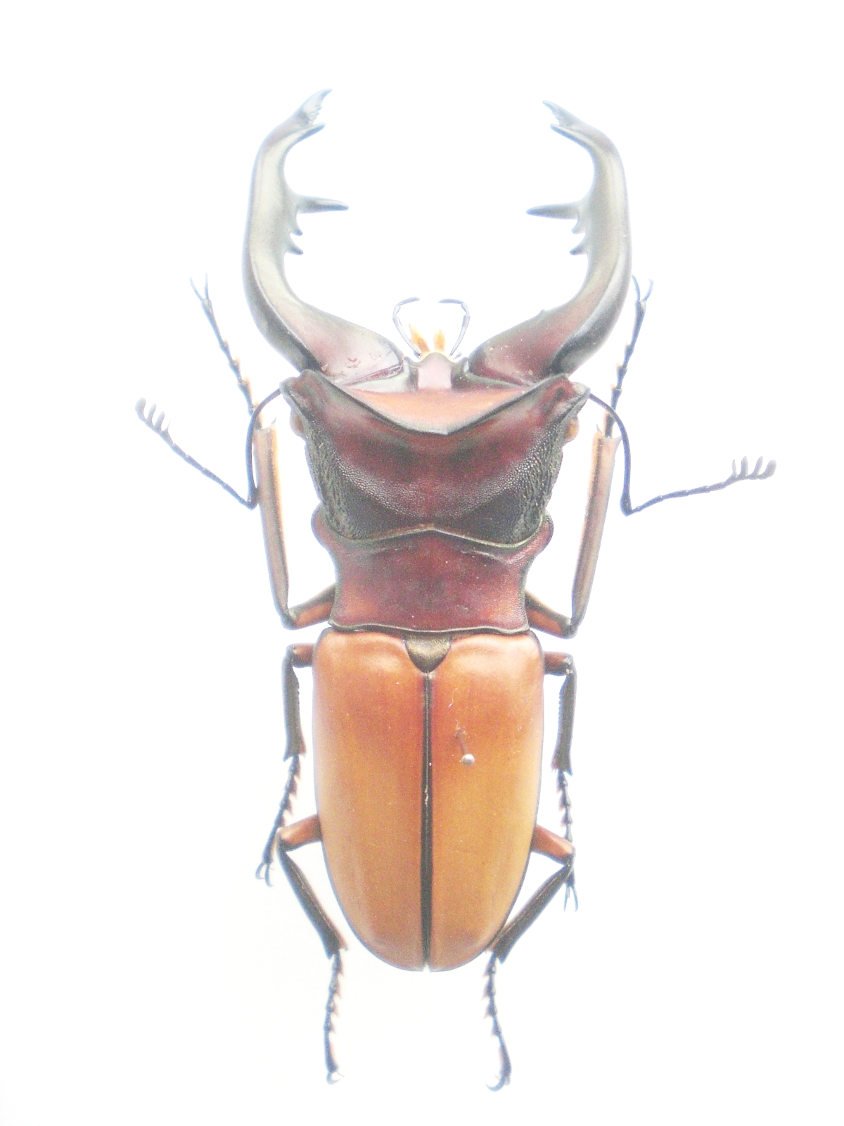 Cyclommatus alagari De Lisle, 1968